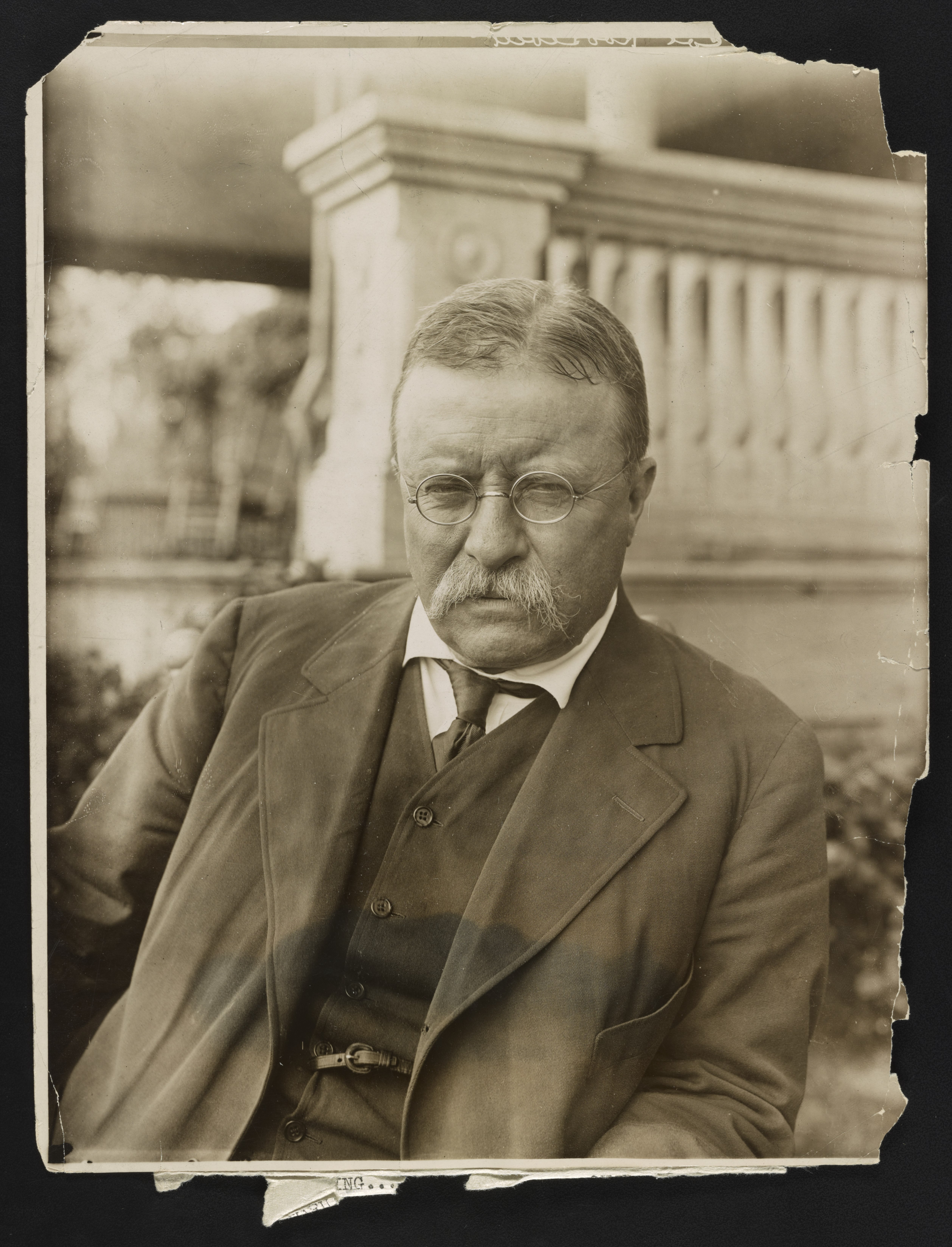 Title: Roosevelt of to-day Abstract/medium: 1 photographic print.